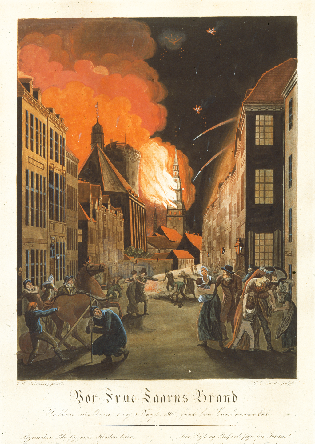 This vivid color print shows the burning of the Church of Our Lady, the cathedral of Copenhagen, on the night of September 4–5, 1807, during the Anglo-Danish war of 1807–14. Britain initiated the war in August 1807, after the Danes refused to surrender their fleet, which the British feared would fall into the hands of Napoleonic France. The British landed troops on Danish soil and on September 2 began a three-day bombardment of the city. On the third night of the attack, the steeple of the cathedral was set on fire and burned and fell to the ground within hours. This print by G.L. Lahde (1765–1833) is based on an 1807 painting by C.W. Eckersberg (1783–1853), which captured the conflagration as seen from a neighboring street. The Church of Our Lady goes back to 1209, when the original sanctuary was constructed of limestone on the highest point in the town. The original church was destroyed in a fire and was reconstructed in 1316. It burned again in the great fire of 1728, but was rebuilt in 1738. It was again rebuilt after the fire of 1807. Eckersberg studied with Jacques-Louis David (1748–1825) in Paris, worked in Rome, and in 1818 was named professor at the Academy of Fine Arts in Copenhagen. He is known as the “father of Danish painting” for his own work and his influence on the younger generation of Danish painters. Cathedrals; Fires; Napoleonic Wars, 1800-1815